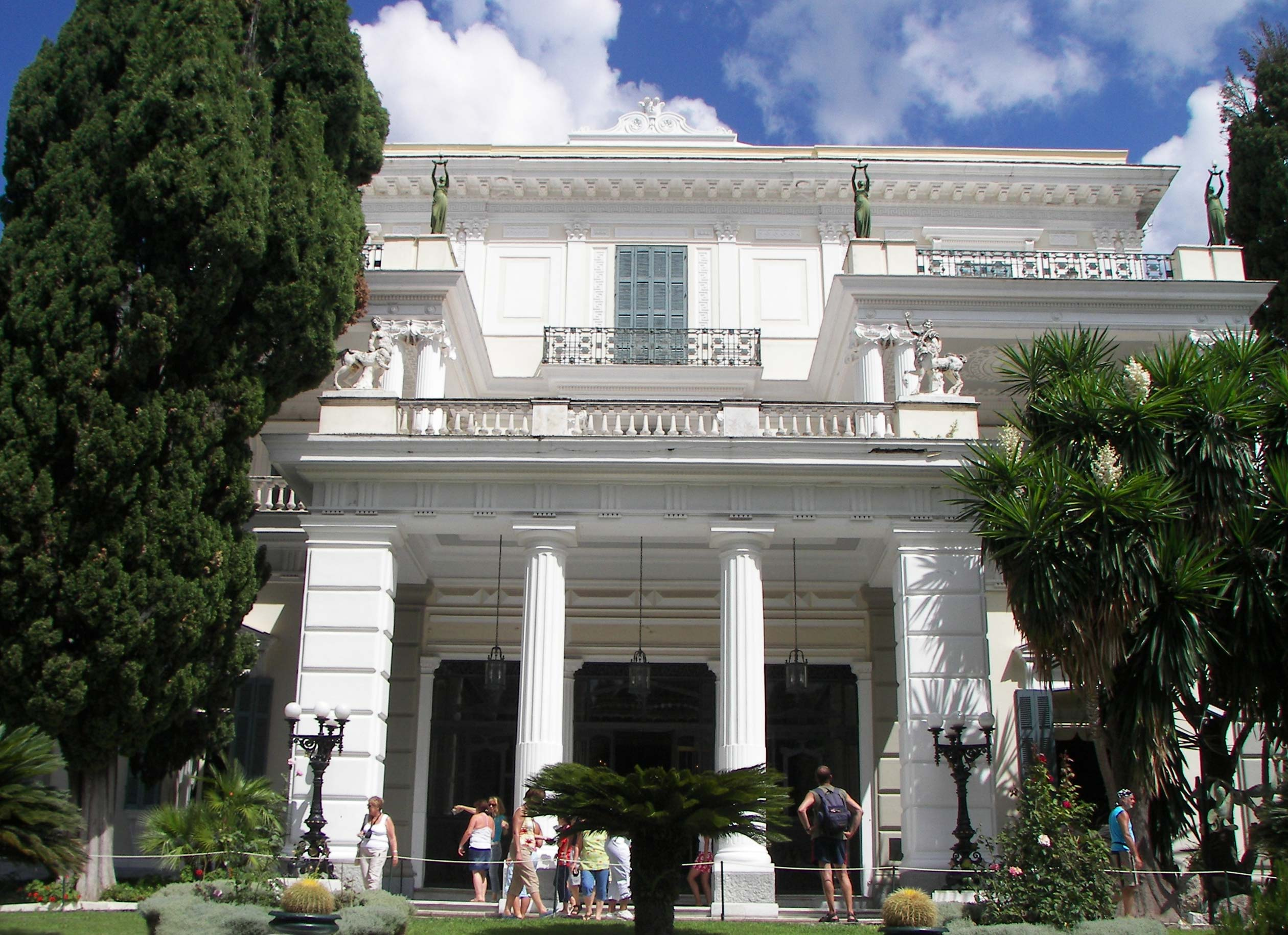 I am the author. Dr.K. 19:22, 14 September 2006 (UTC)